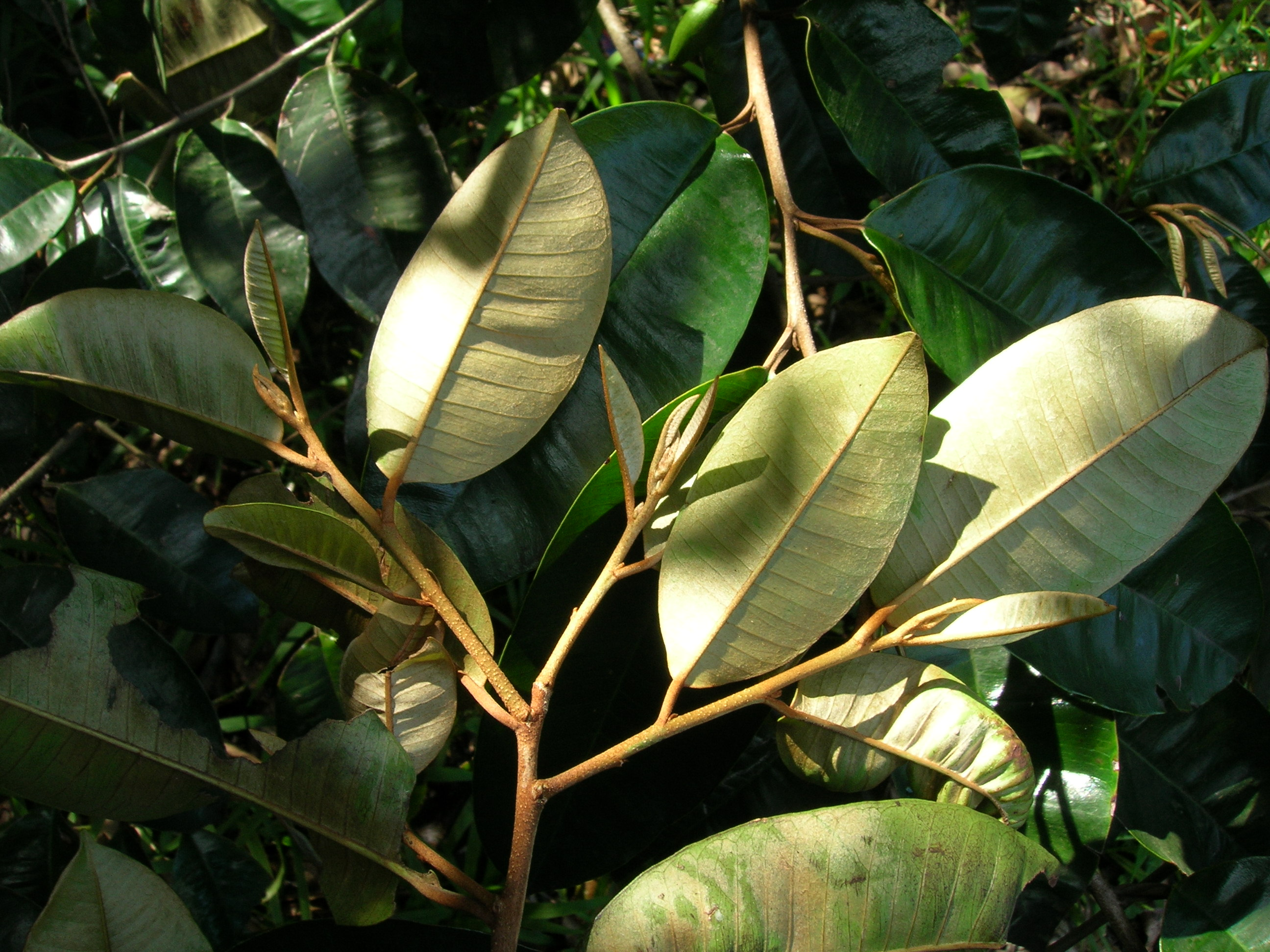 Chrysophyllum oliviforme (habit). Location: Maui, Ulumalu